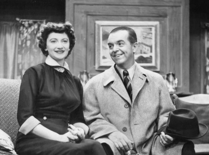 Publicity photo of Peg Lynch and Alan Bunce from the television version of Ethel and Albert, 1954.